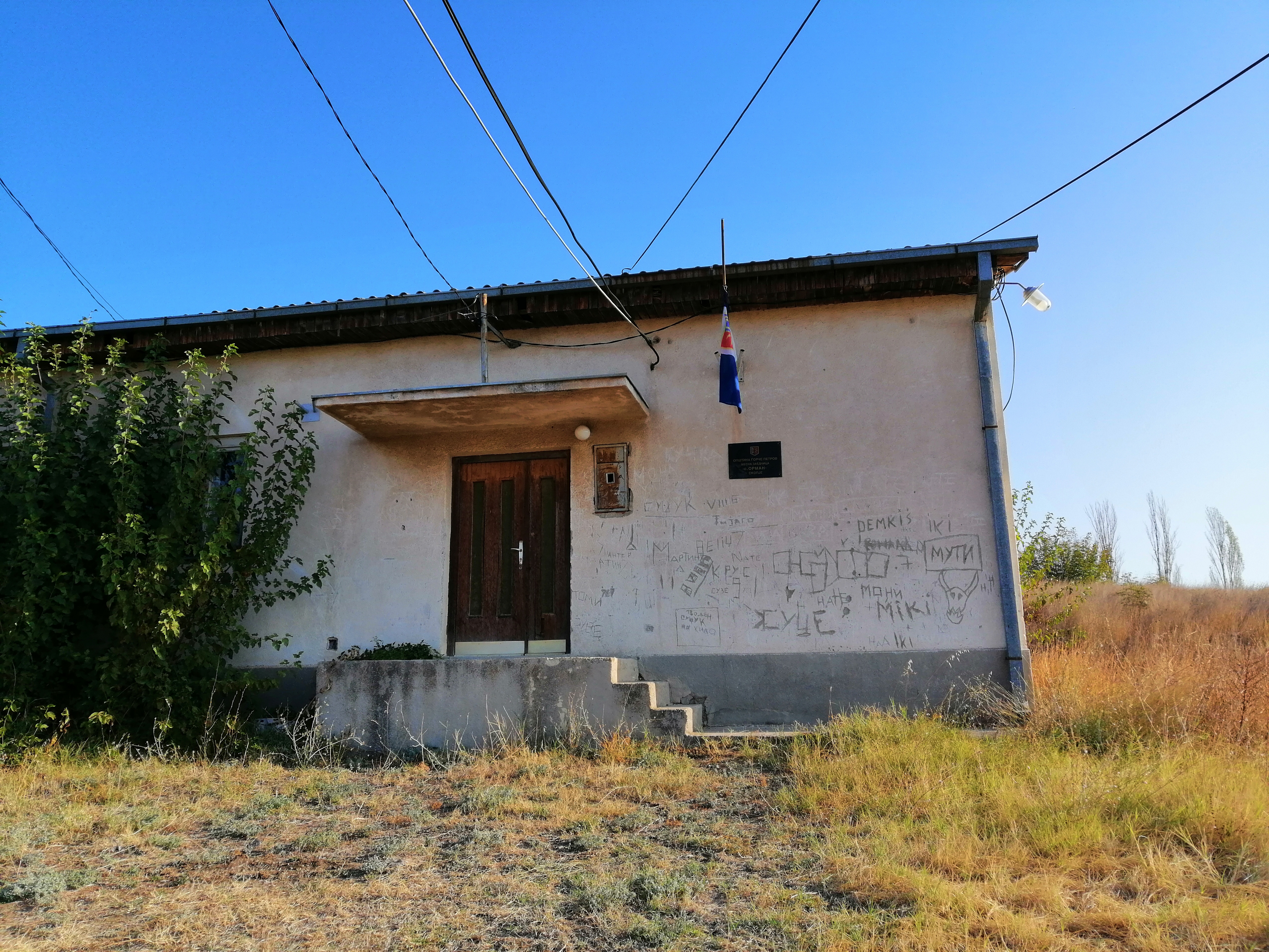 Municipal building in the village Orman, Skopje